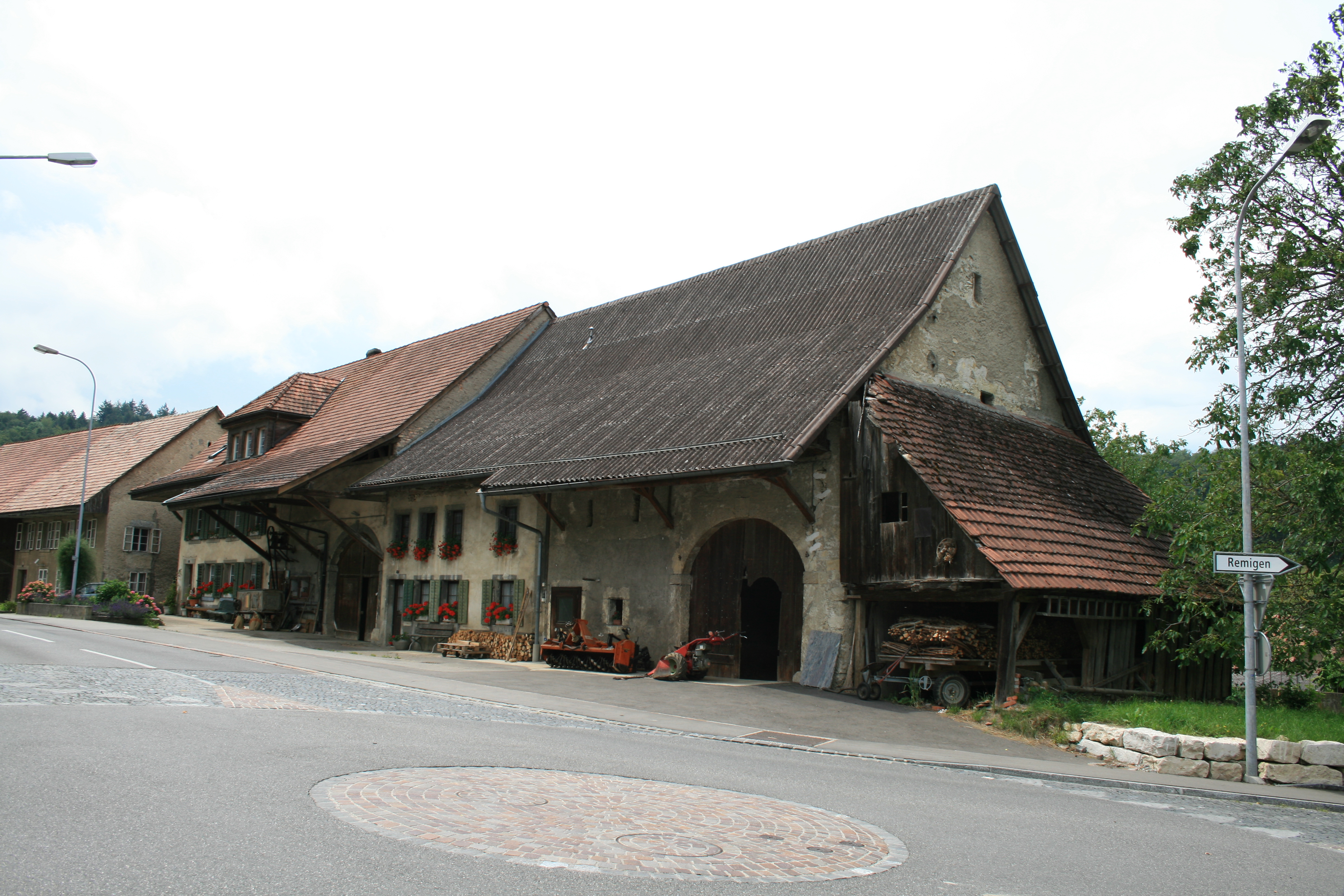 Riniken AG, Switzerland